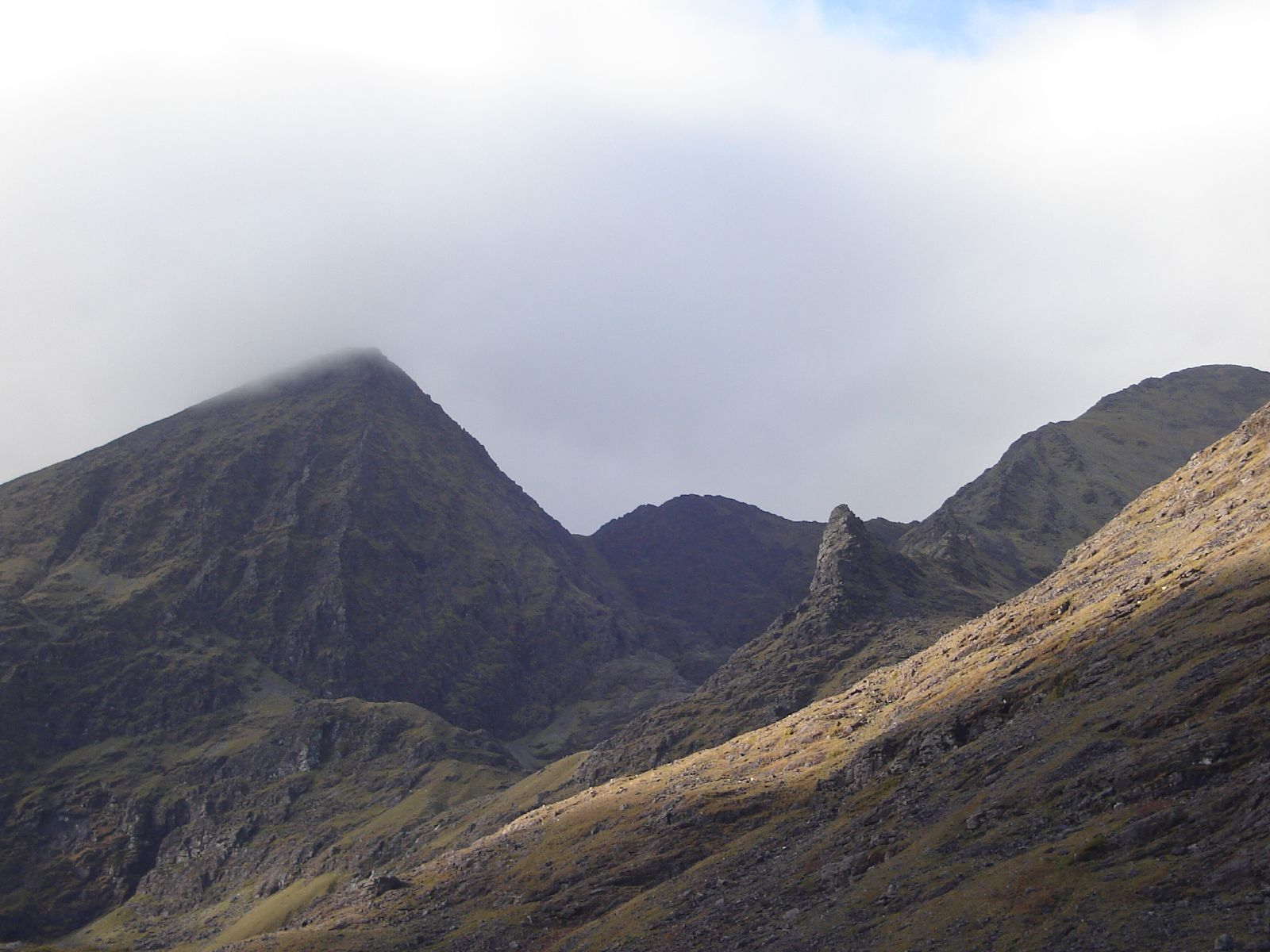 Summit of Carrantuohill, the highest mountain in Ireland